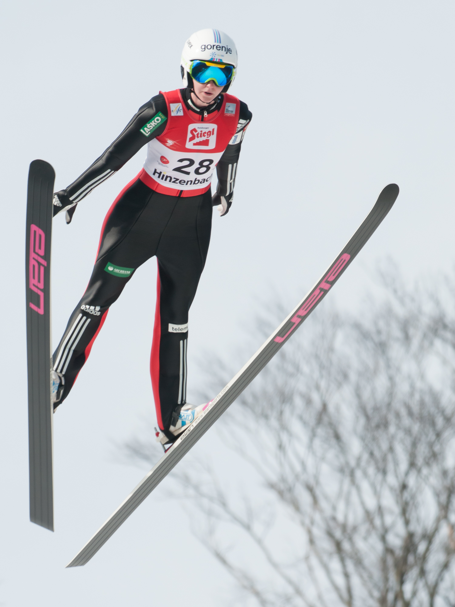 FIS Ski Jumping World Cup Ladies Hinzenbach 2016-02-07